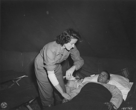 Cordelia E Cook in 1943 as a nurse on duty in a field hospital in Italy.